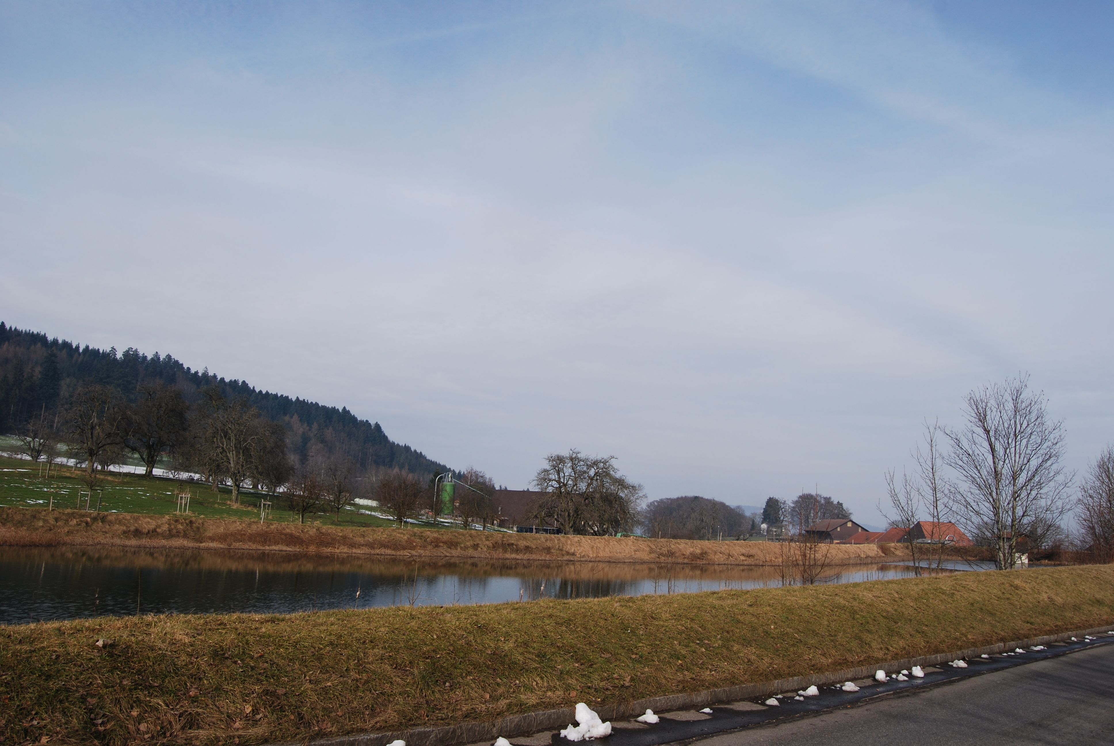 Pond at Burg, canton of Aargau, SwitzerlandEsperanto: Lageto en Burg, Kantono Argovio, Svislando